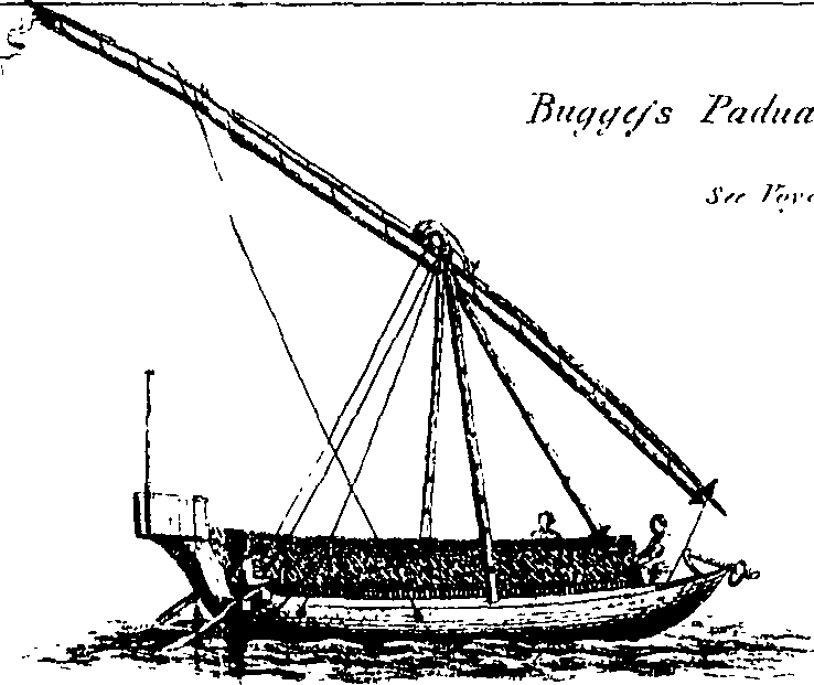 Fleuron from book: A voyage from Calcutta to the Mergui archipelago, lying on the east side of the Bay of Bengal; Describing a Chain of Islands, never before surveyed, that form a Strait on that Side of the Bay, 125 Miles in Length, and from 20 to 30 Miles in Breadth; with good Mud Soundings and regular Tides throughout: which Strait lying nearly North and South, any Ship may work up against the South-West Monsoon, and so get out of the Bay of Bengal, when otherwise, she might be locked up for the Season. Also, An Account of the Islands Jan Sylan, Pulo Pinang, and the Port of Queda; the present State of Atcheen; and Directions for Sailing thence to Fort Marlbro' down the South-West Coast of Sumatra: To which are added, An Account of the Island Celebes; a Treatise on the Monsoons in India; a Proposal for making Ships and Vessels more convenient for the Accommodation of Passengers; and Thoughts on a new Mode of preserving Ship Provision: Also, An Idea of making a Map of the World on a large Scale: By Thomas Forrest, Esq. Senior Captain of the Honourable Company, Marine at Fort Marlbro' in 1770, and Author of the Voyage to New Guinea. The whole illustrated with various Maps, and Views of Land; a Print of the Author's Reception by the King of Atcheen; and a View of St. Helena from the Road. Engraved by Mr. Caldwall.